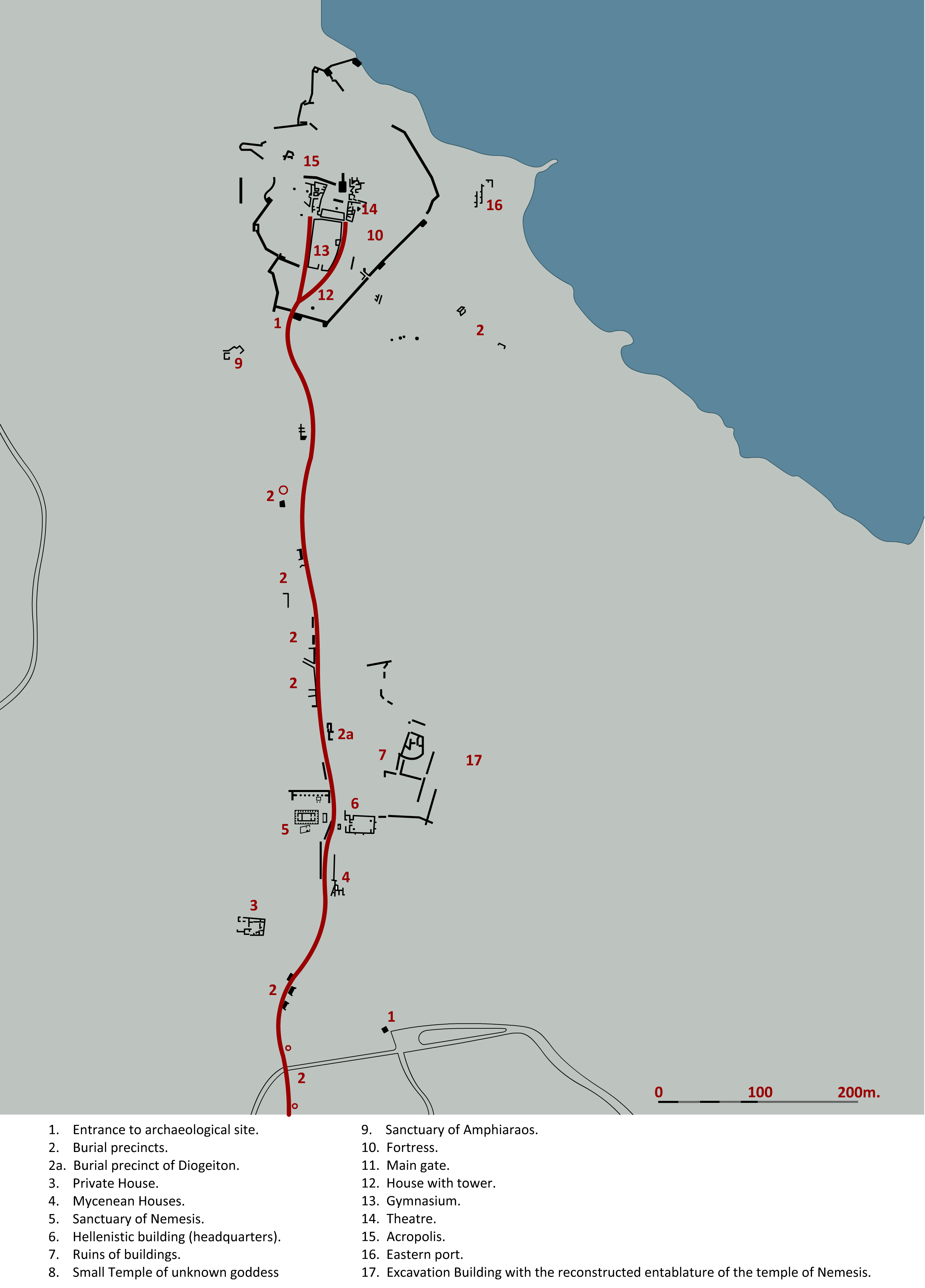 Plan du site archéologique de Ramnous (Grèce) avec légende en anglais Map of the archeological site of Rhamnus (Greece) with legend in English